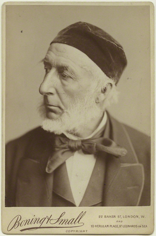 Portrait of Charles Handfield Jones (1819–1890), English physician.